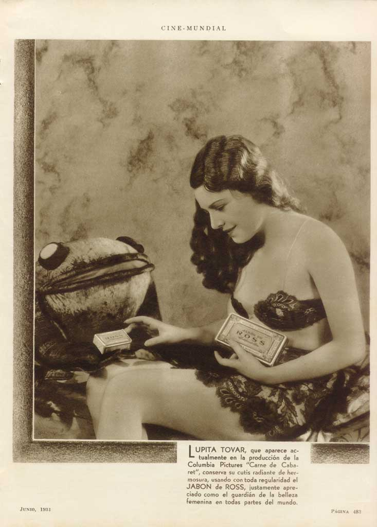 Publicity photo of Lupita Tovar for Argentinean Magazine. (Printed in USA)